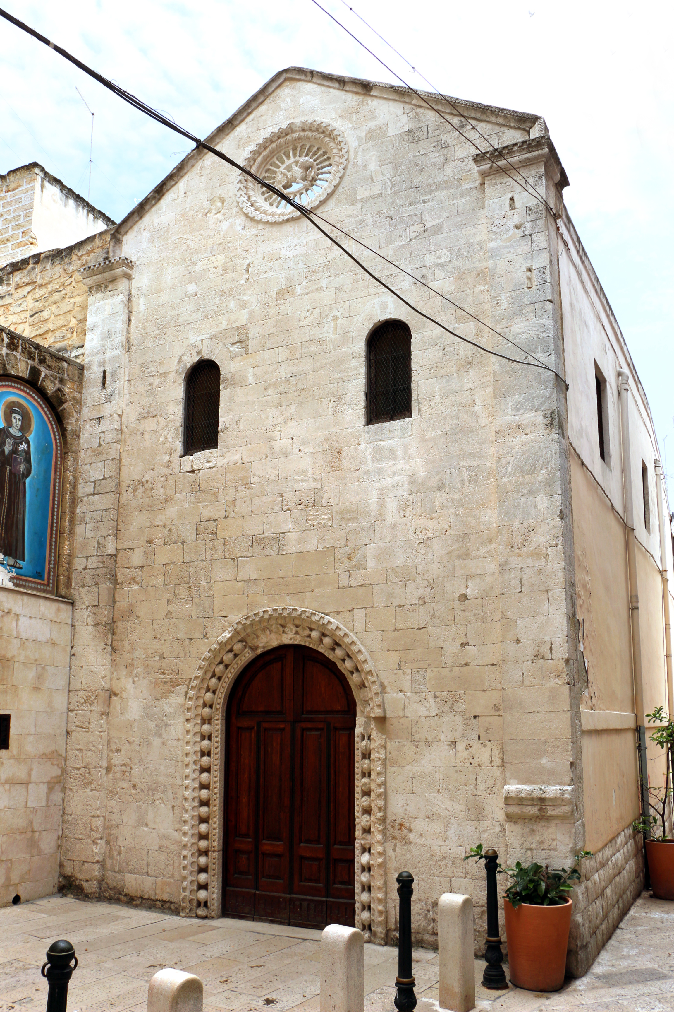 San Marco dei Veneziani (Bari)